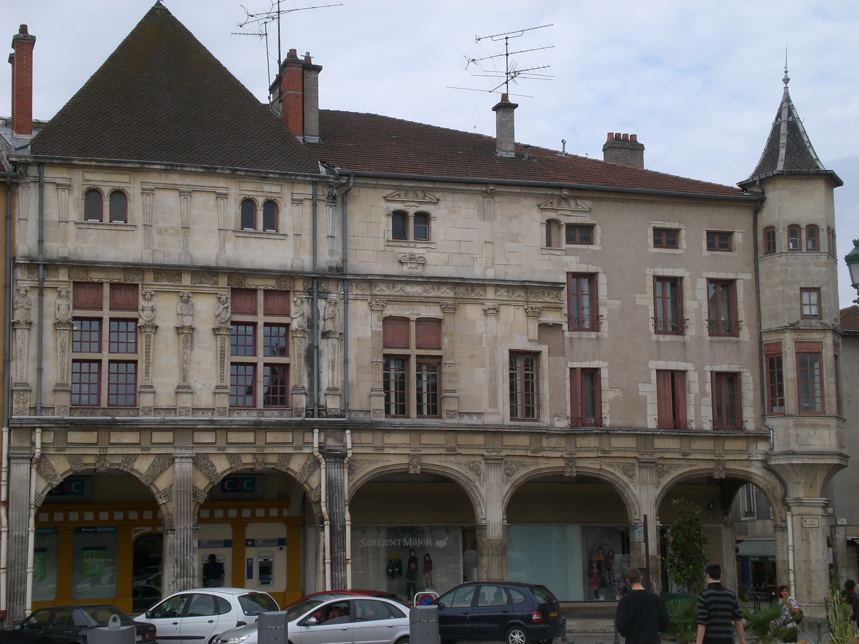 Pont-à-Mousson, House of Seven deadly sins, XVI Century